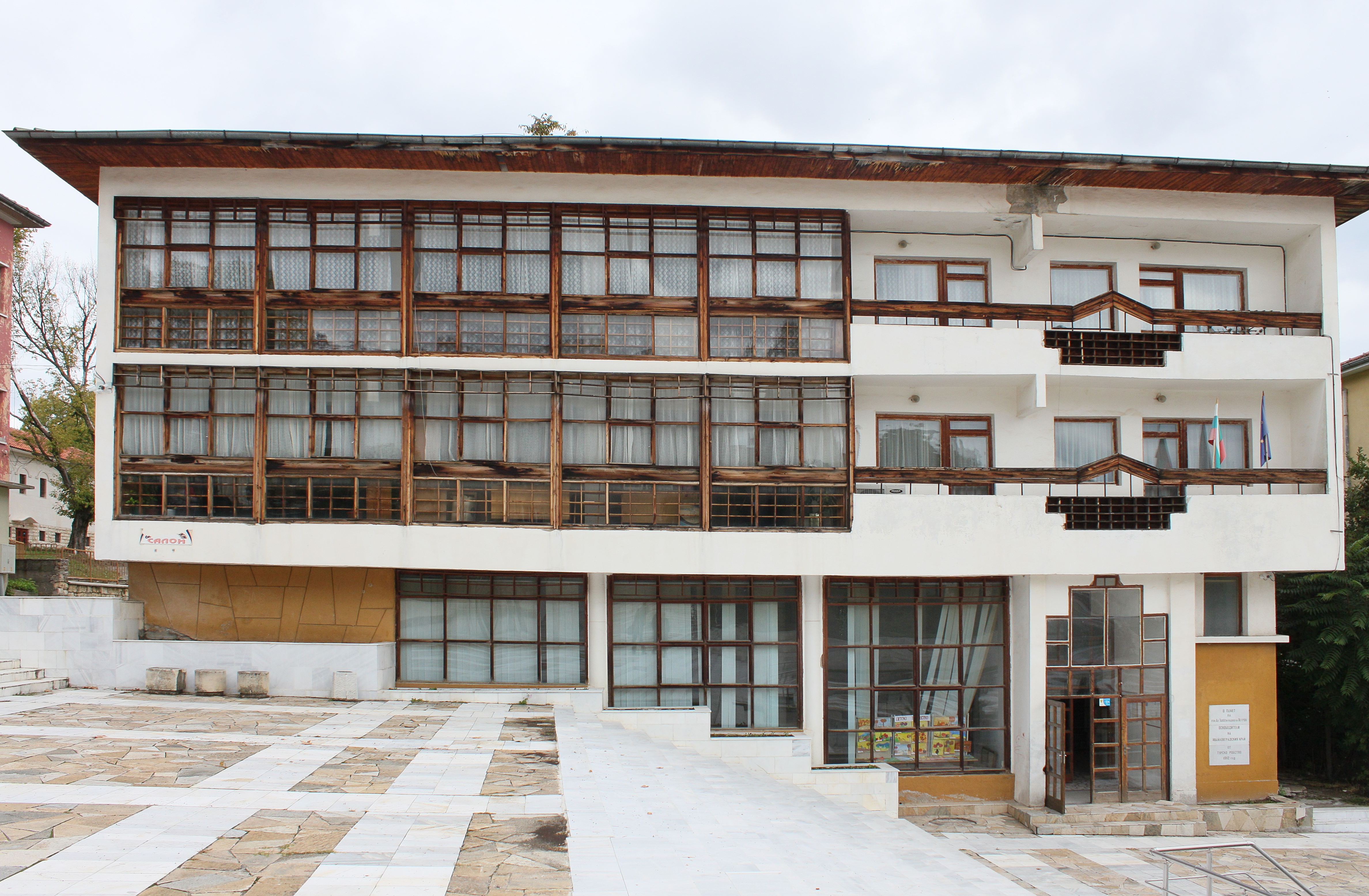 Ivaylovgrad, Bulgaria